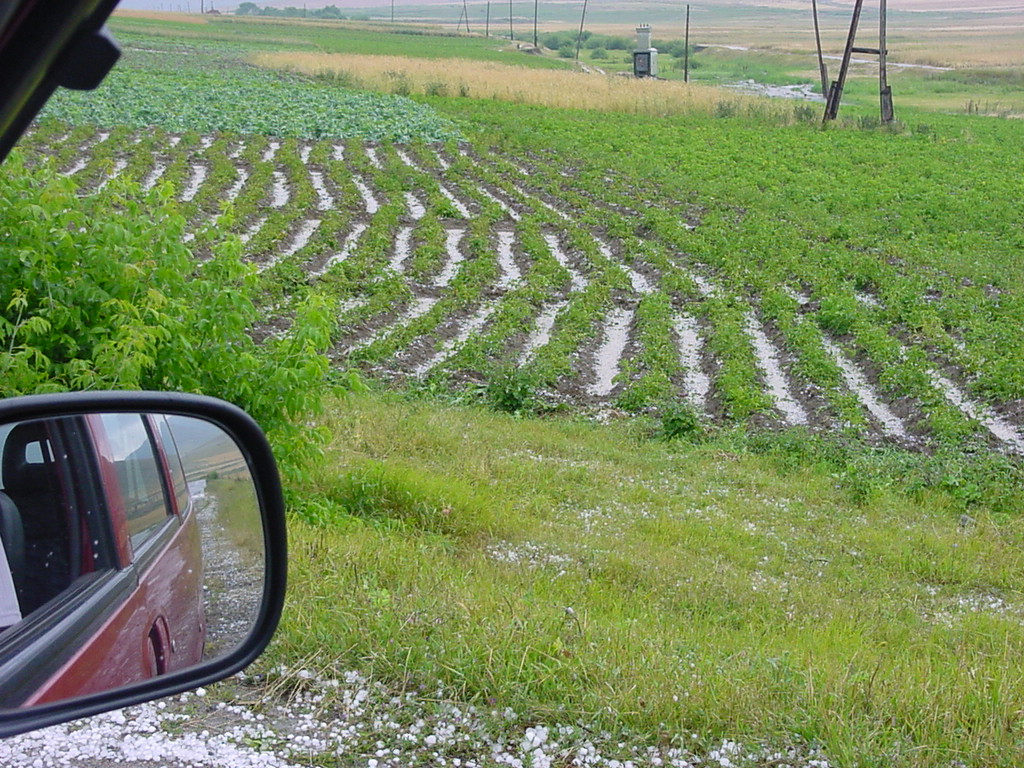 Hail in Tashir